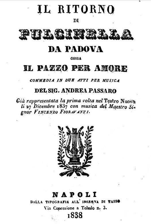 Libretto printed for Vincenzo Fioravanti's opera Il ritorno di Pulcinella da Padova. The opera premiered at the Teatro Nuovo in Naples 27 December 1837. The opera ran for 35 performances. This libretto was printed in 1838.